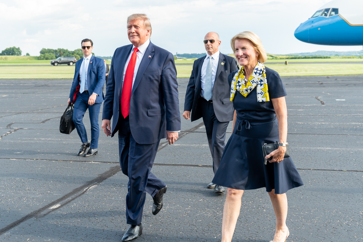 President Donald J. Trump is joined by U.S. Senator Shelly Moore Capito, R-WV, as he arrives Wednesday, July 24, 2019, aboard Air Force One at Wheeling Ohio County Airport in Wheeling, W.Va. (Official White House Photo by Shealah Craighead)